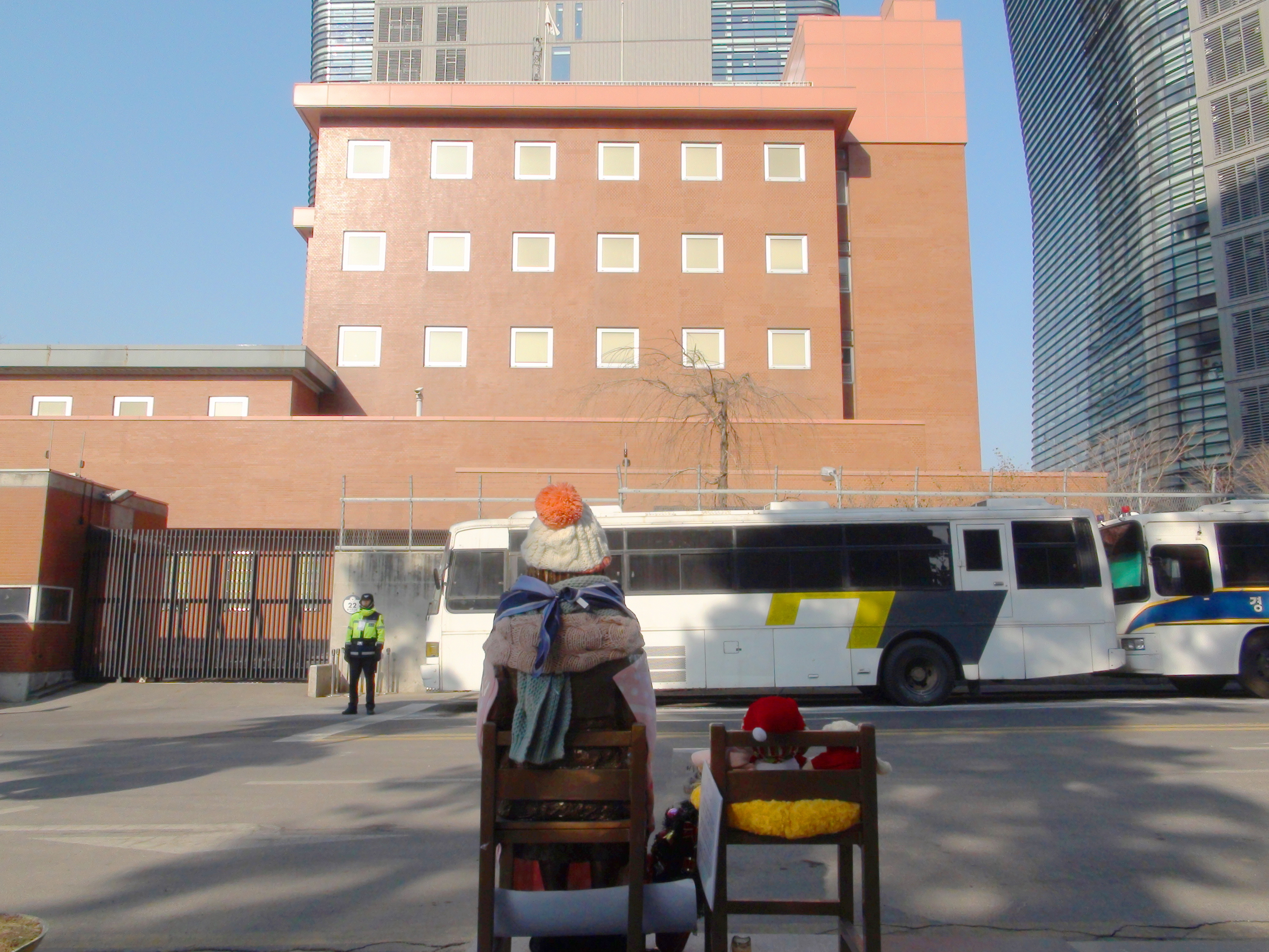 Japanese Embassy in Seoul and watched from behind a bronze statue of comfort women